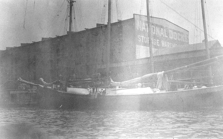 The civilian schooner-rigged pilot boat Liberty III around the time the United States Navy acquired her for service as the patrol vessel .